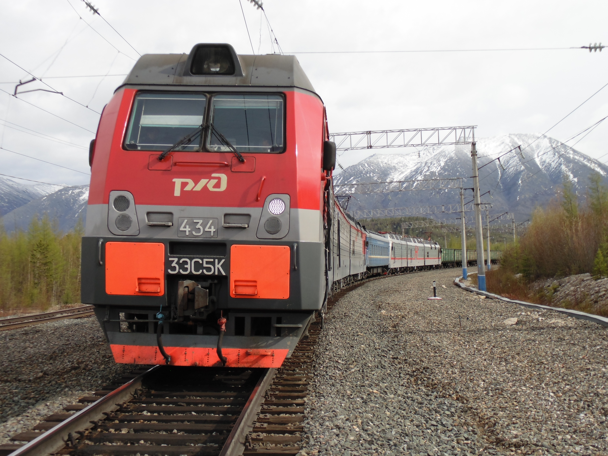 Electric locomotive 3ES5K-434 during its test run